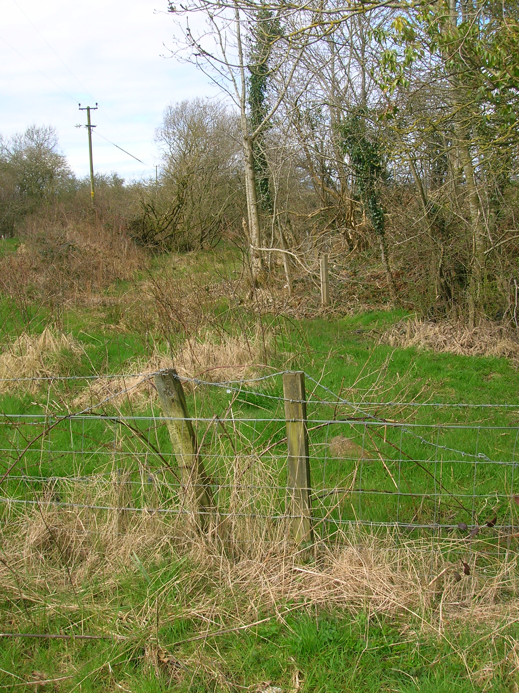 The course of the Ardrossan and Johnstone Railway at Benslie Benslie, North Ayrshire, Scotland.